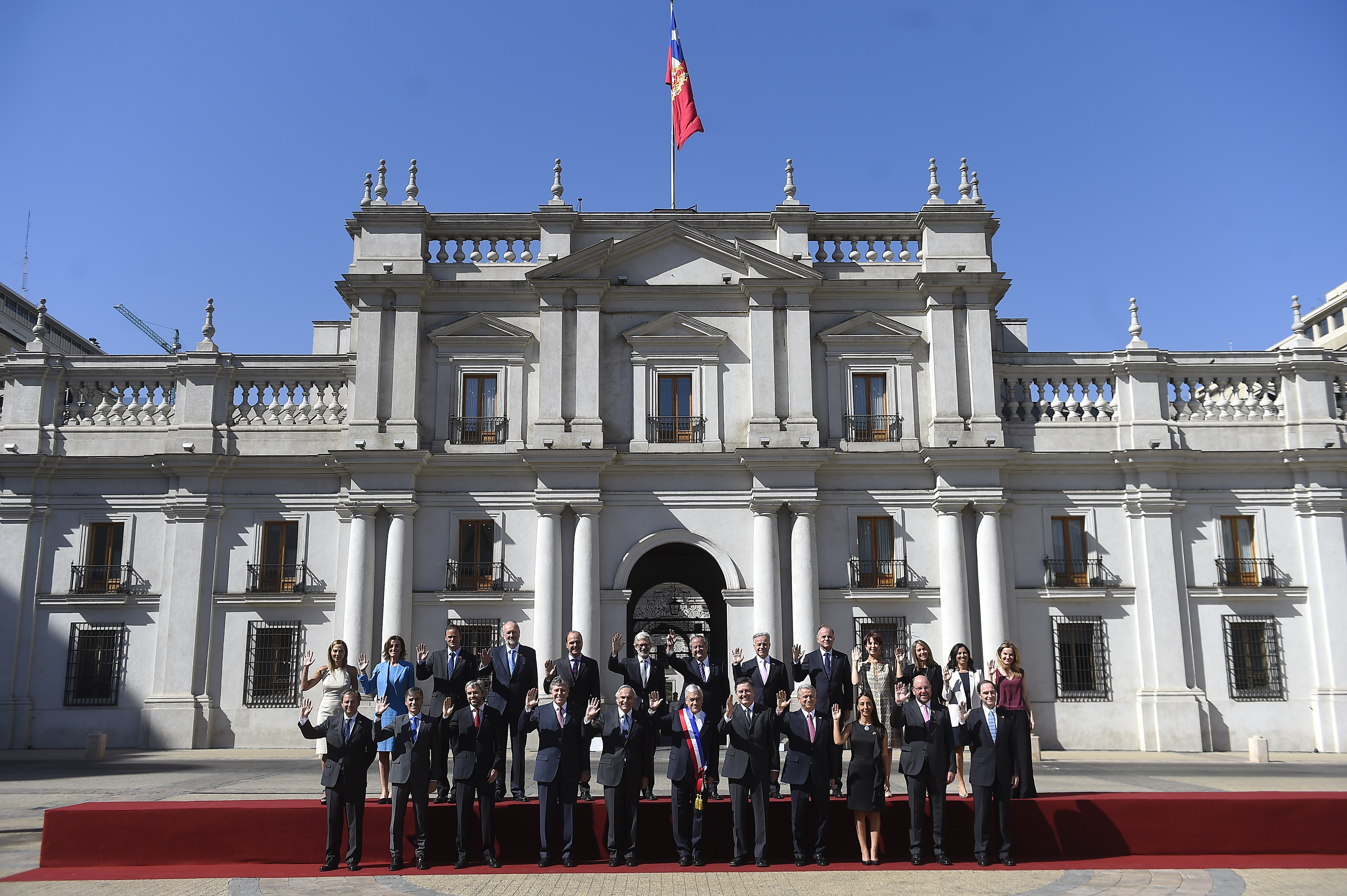 Official photograph of the Cabinet of President Sebastián Piñera in March 2018